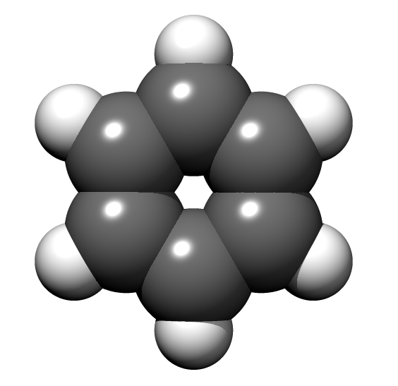 A raytraced diagram of benzene.